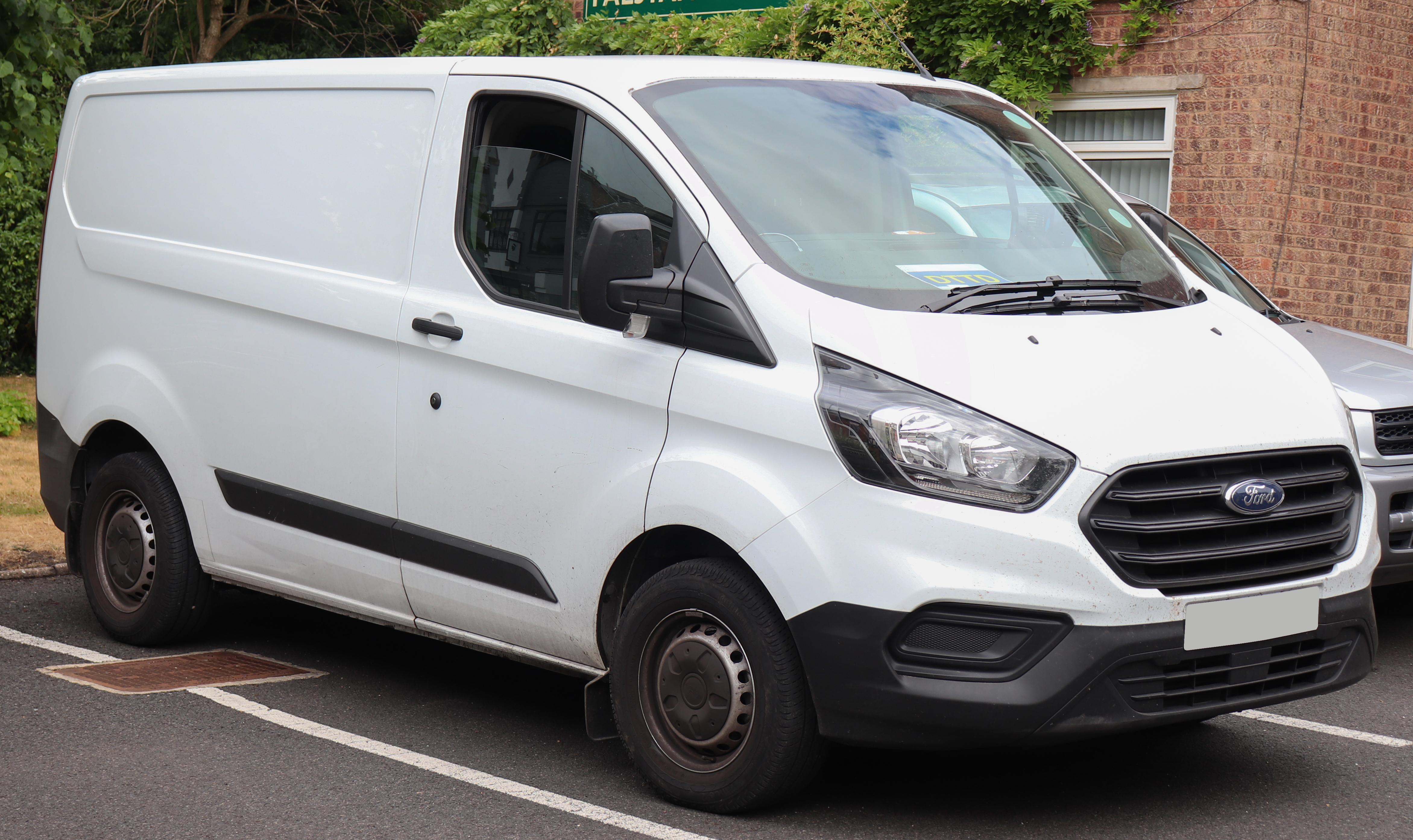 2018 Ford Transit Custom 300 Base 2.0 facelift Taken in Stratford-upon-Avon